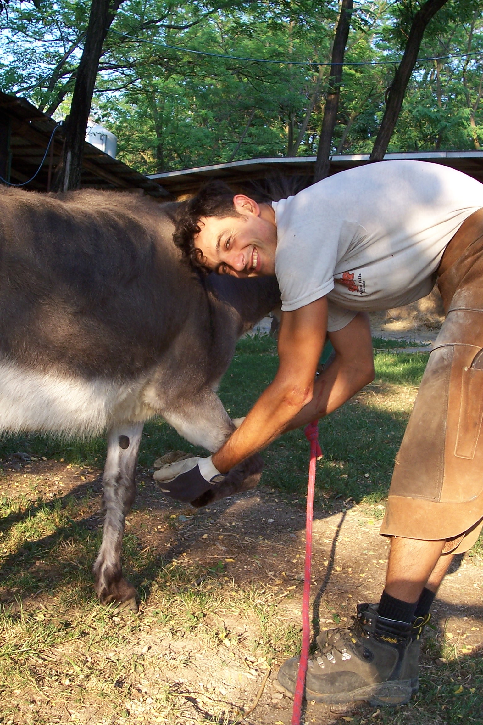 A farrier is looking at a donkey's hooves. A careful Natural horsemanship is requested for a plain, polite relationsip with donkeys.